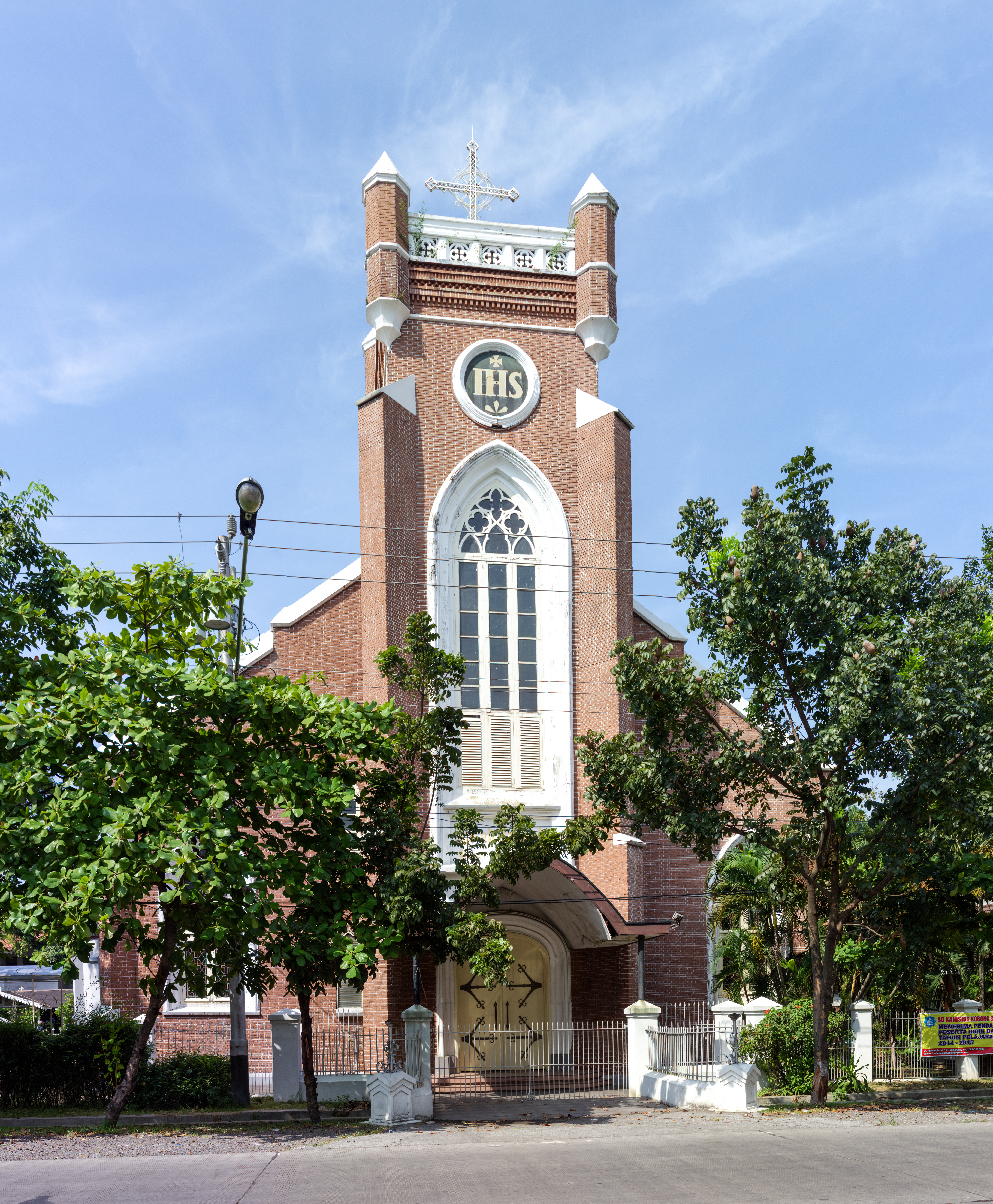 Exterior, Gedangan Church, 2014-06-18